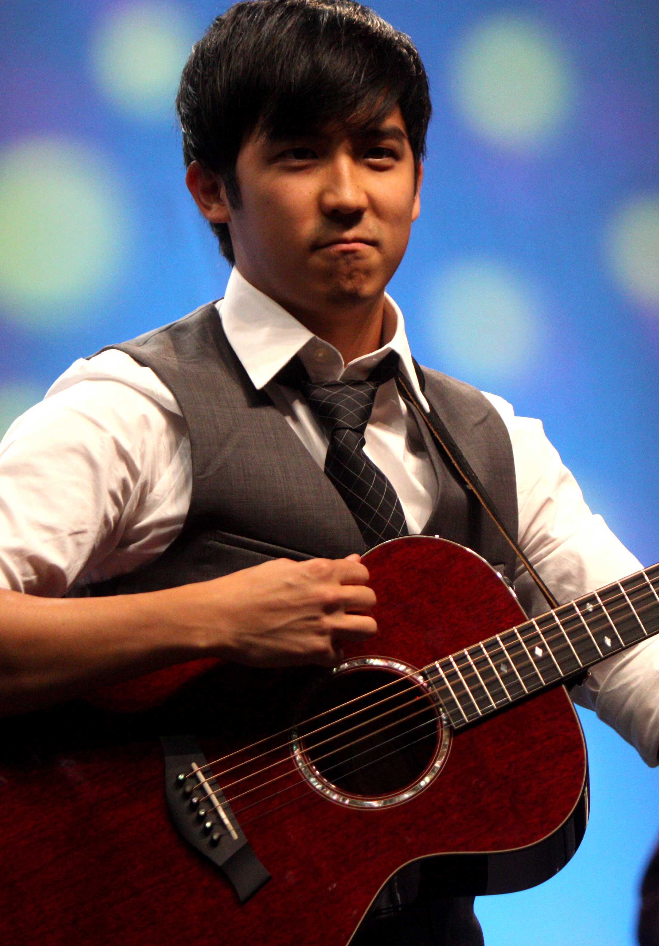 Jimmy Wong at the 2012 VidCon in Anaheim, California.